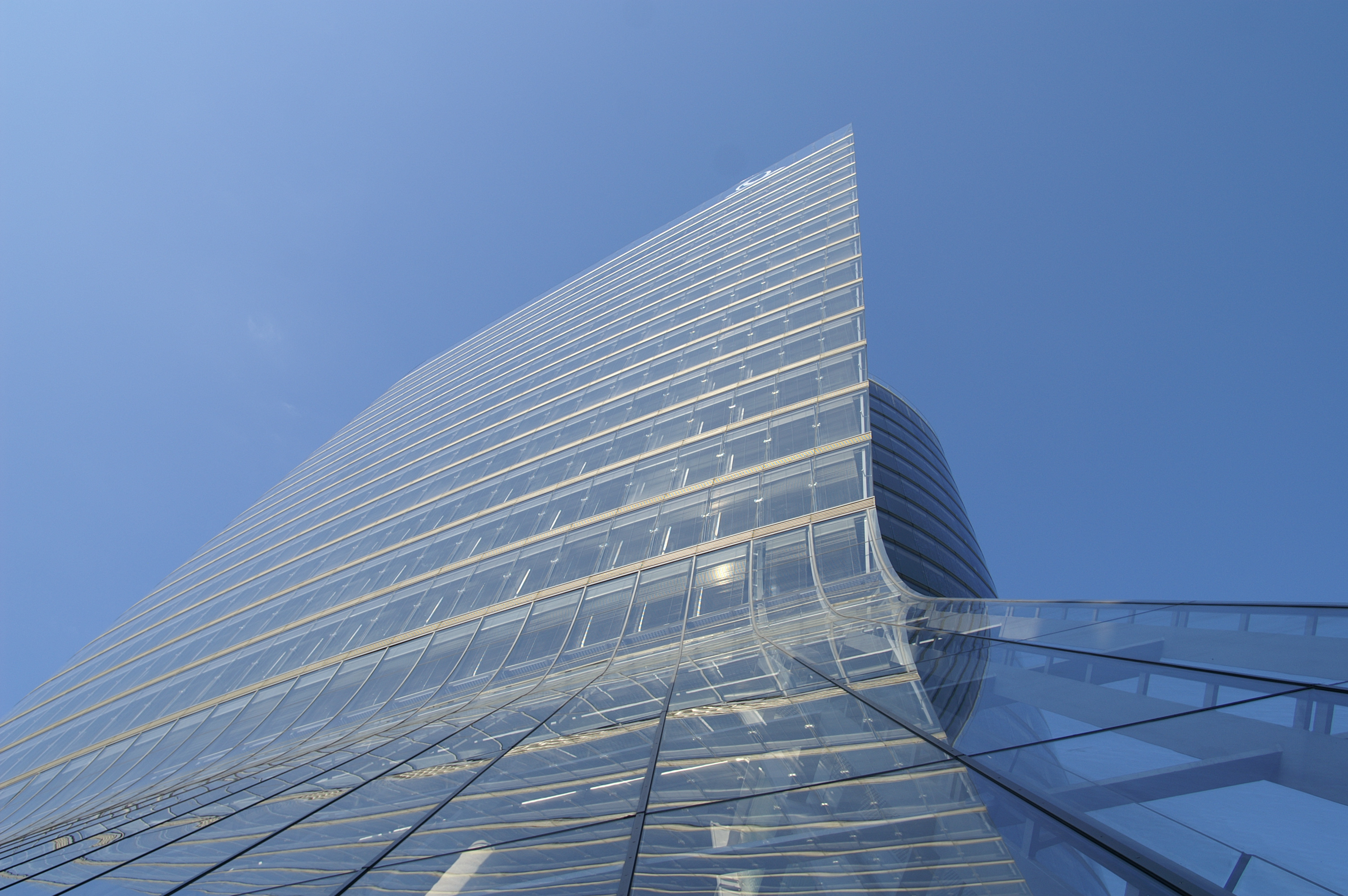 Facade of the UNIQA-Tower, in Vienna, Austria